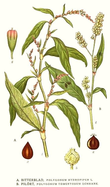 A. Persicaria hydropiper (L.) Spach B. Persicaria lapathifolia (L.) Gray ssp. pallida Original Description A. Bitterblad, Polygonum hydropiper L. B. Pilört, Polygonum tomentosum Schrank.